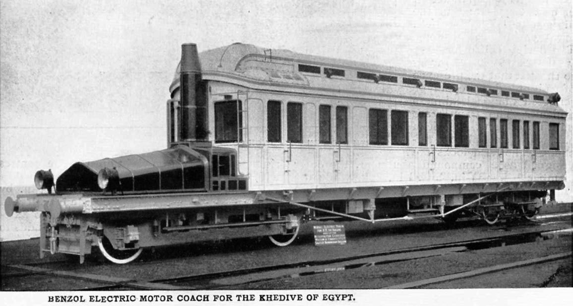 Benol electric motor coach fo the Khedive of Egypt